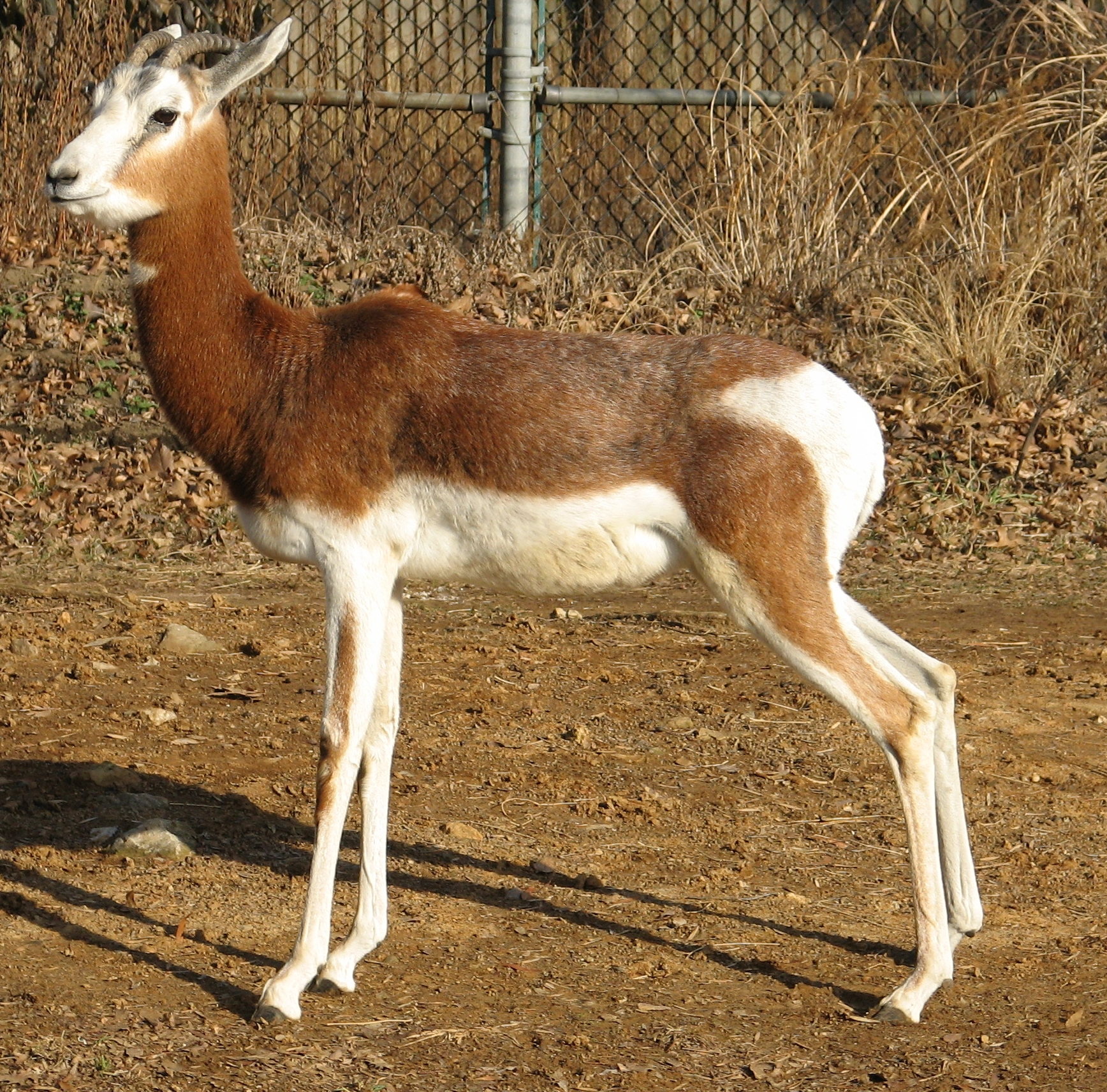 Gazella dama mhorr at Louisvill Zoo